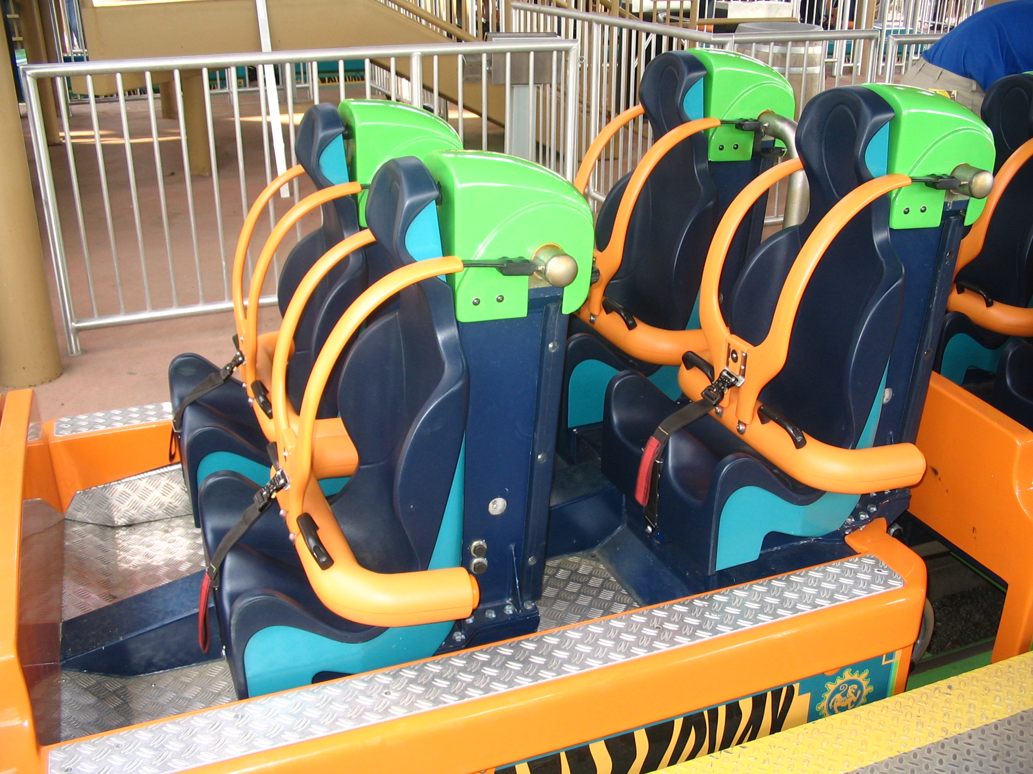 Description Kingda Ka's seats with the restraints down Date15 April 2006SourceOwn workAuthorDusso Janladde Kingda Ka's seats with the restraints down